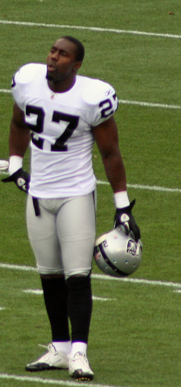 Stevie Brown, a player on the Oakland Raiders American football team.